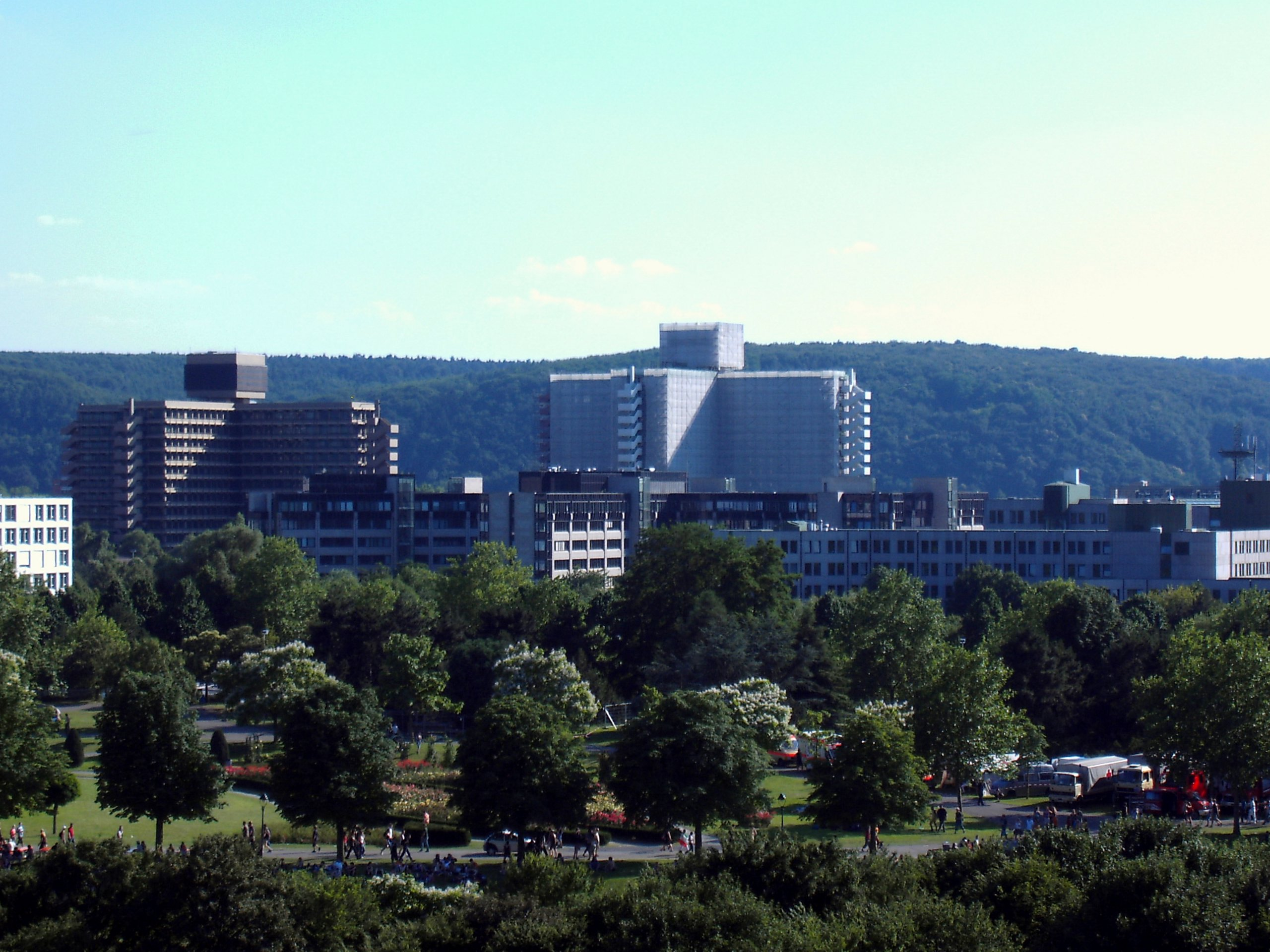 Aerial view of the “Crossbuildings” (german “Kreuzbauten”), seat of the Federal Ministry for Education and Research and the building of the Federal Ministry for Traffic, Building and Urban Development in Hochkreuz.